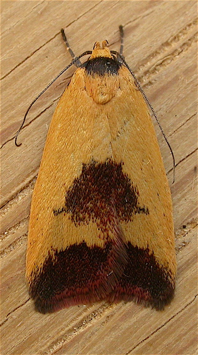 Ageletha hemiteles (Meyrick, 1883). Image taken at Aranda, Canberra (Australia).